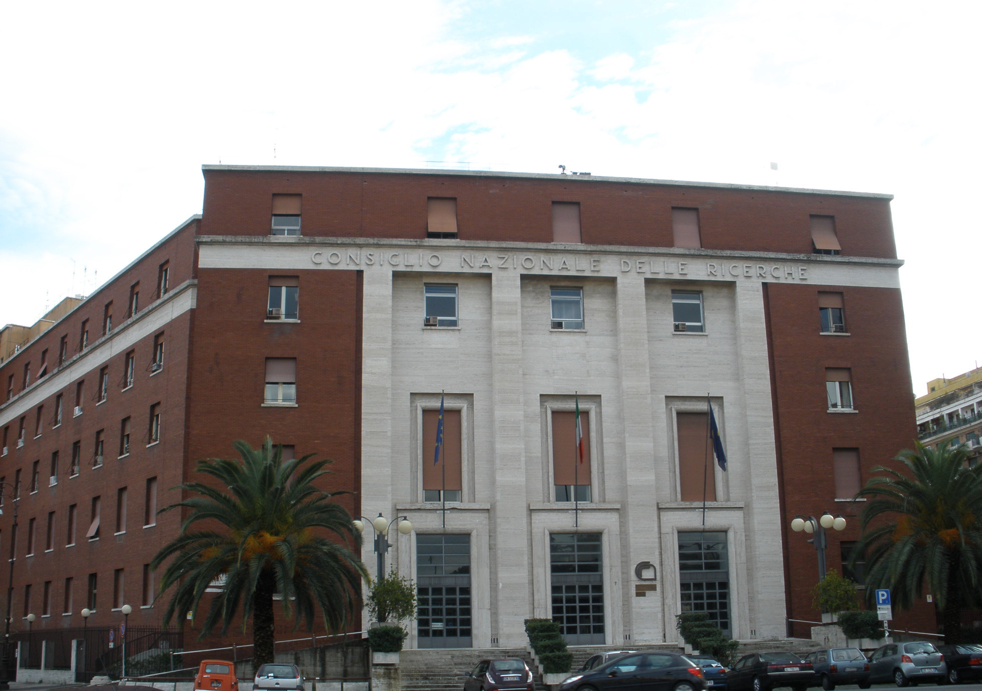 Consiglio Nazionale delle Ricerche, Roma piazzale Aldo Moro